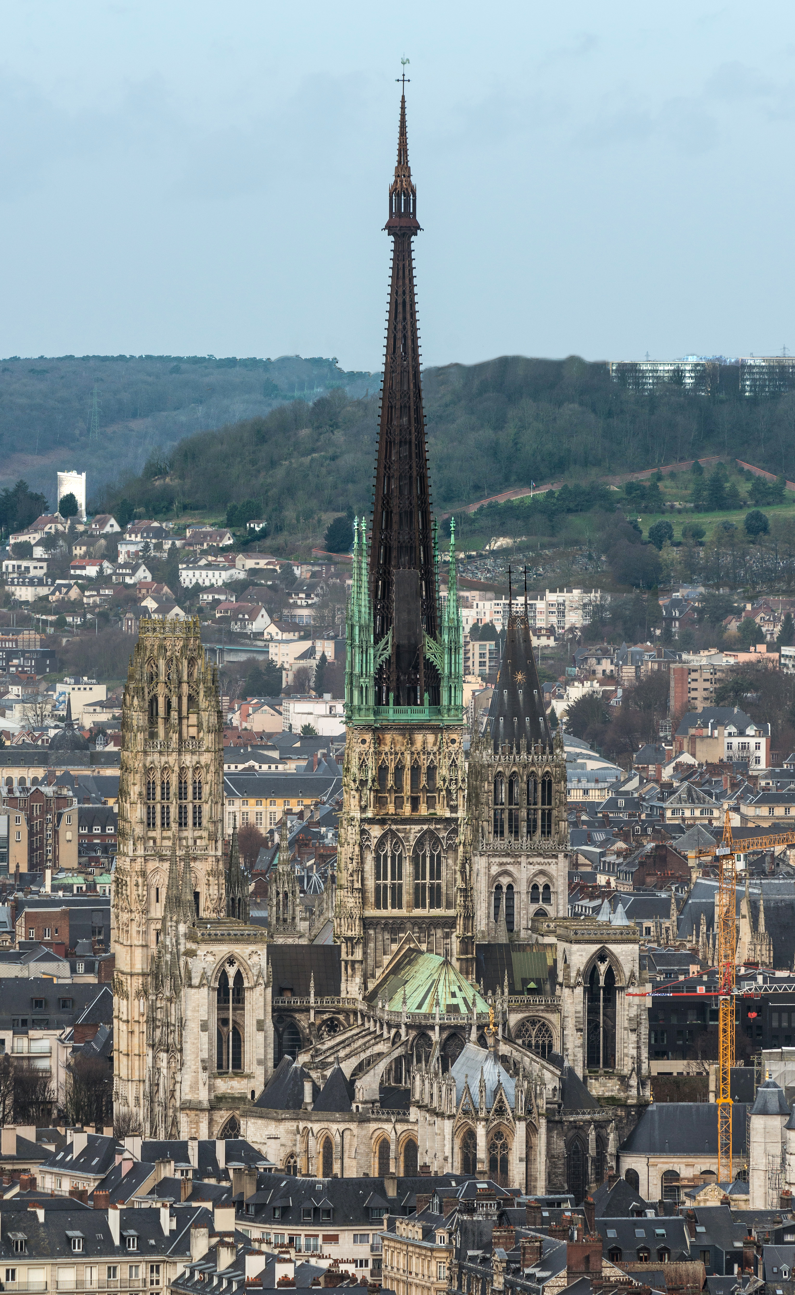 The Rouen Cathedral as seen from Mont Gargan, a nearby hill